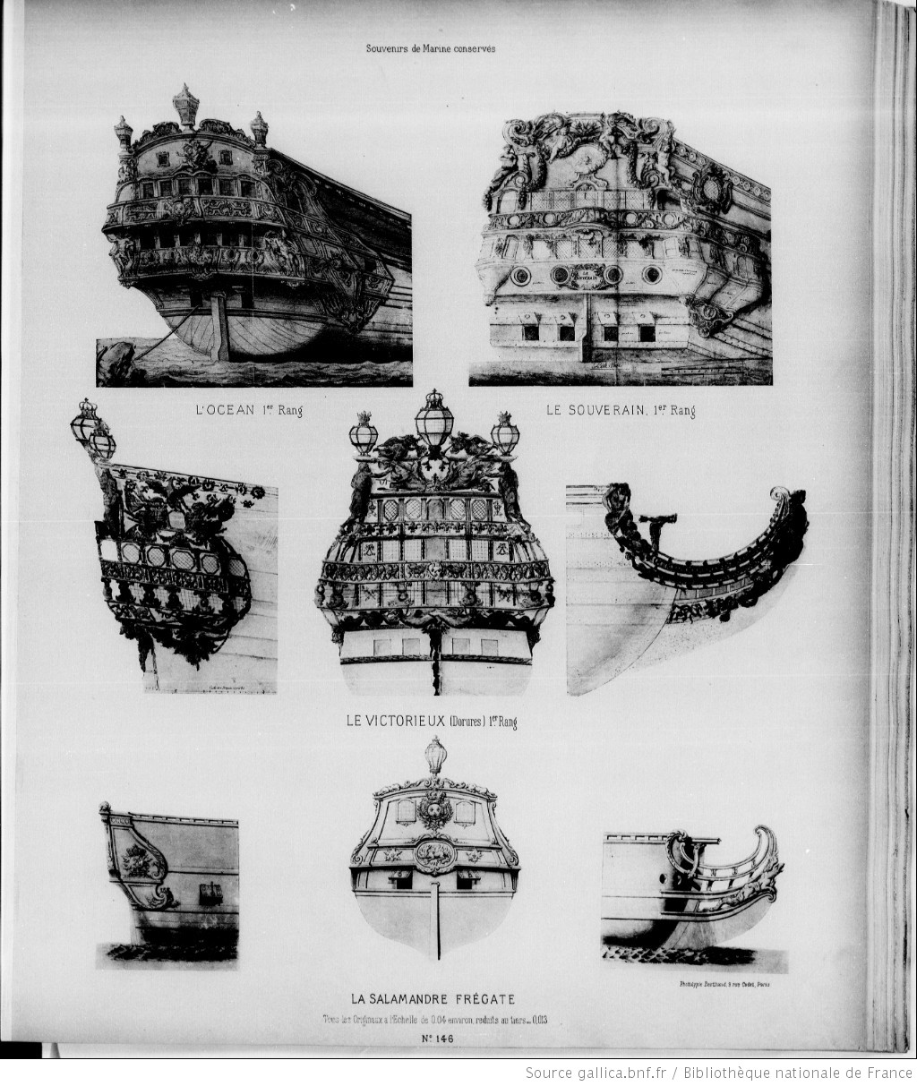 The Ocean 1st Rank, the Sovereign 1st Rank, the Victorious (gilding) 1st Rank, and the Frigate Salamander.